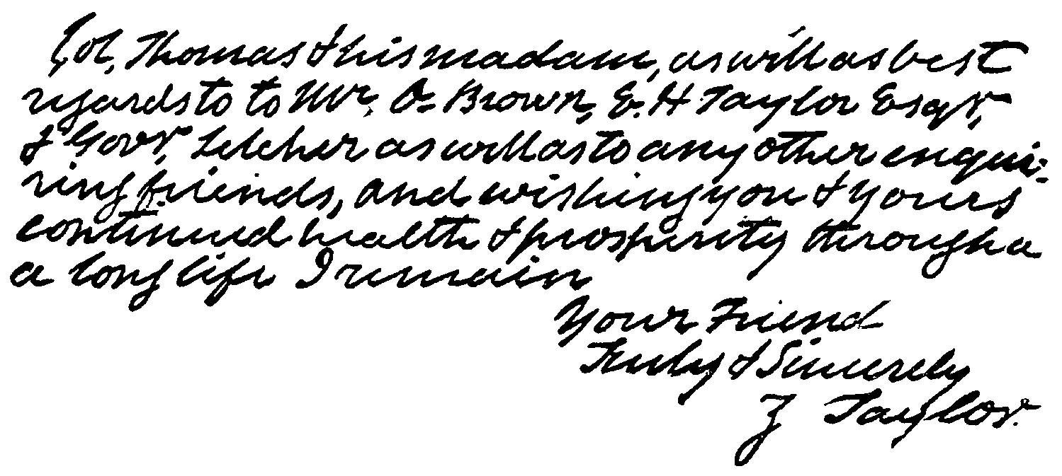 Photograph of President of the United States Zachary Taylor